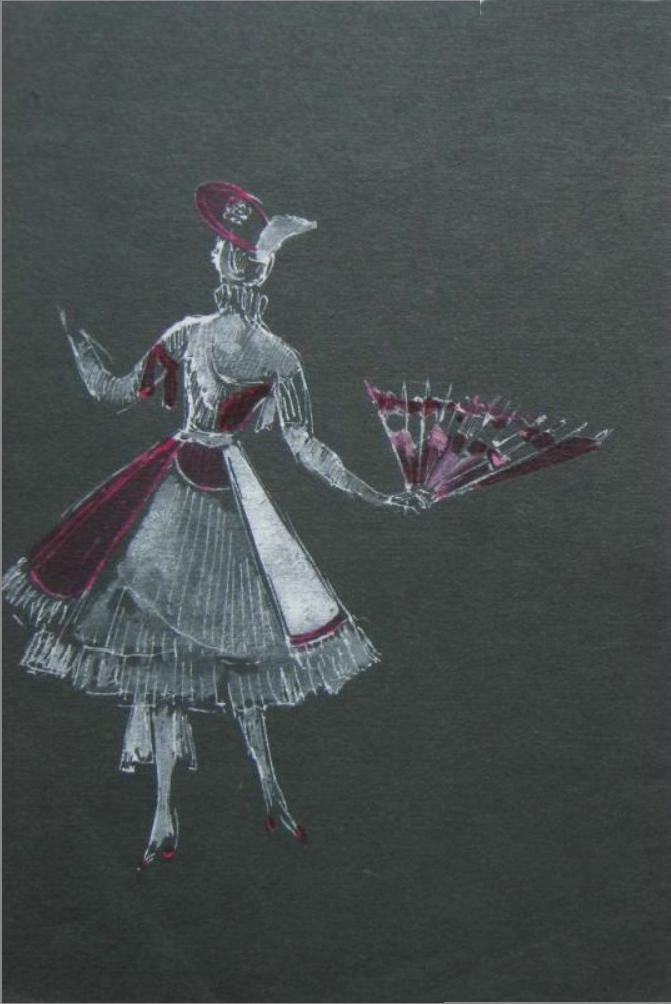 G. Yakulov. Girl with a fan. Sketch of a female costume. Unidentified performance Gray paper, white, raspberry ink. 20,2 × 13,1 cm The sketch is located in the Bakhrushin Museum in Moscow, Russia.